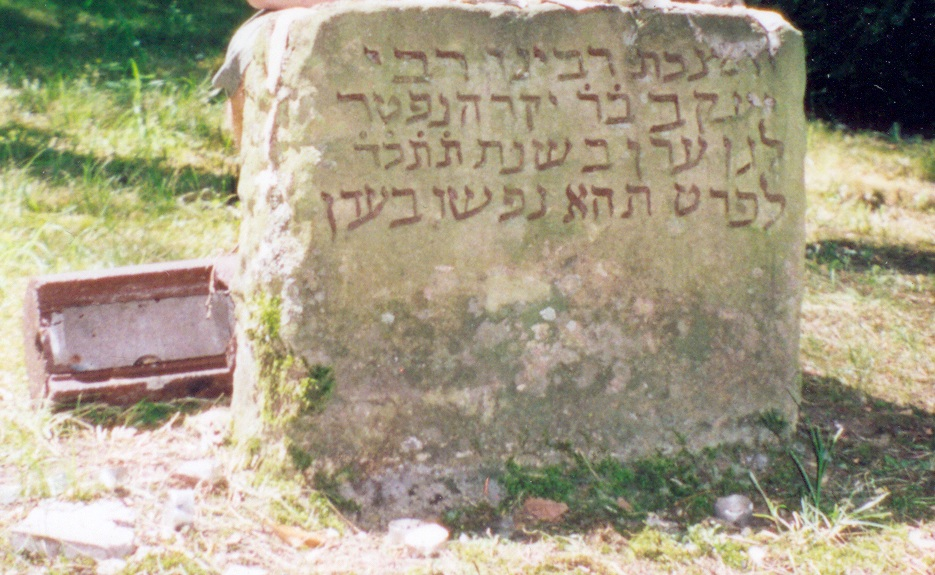 Tombstone of Rabbi Yaakov bar Yakar (died 1064). Picture taken in Mainz.